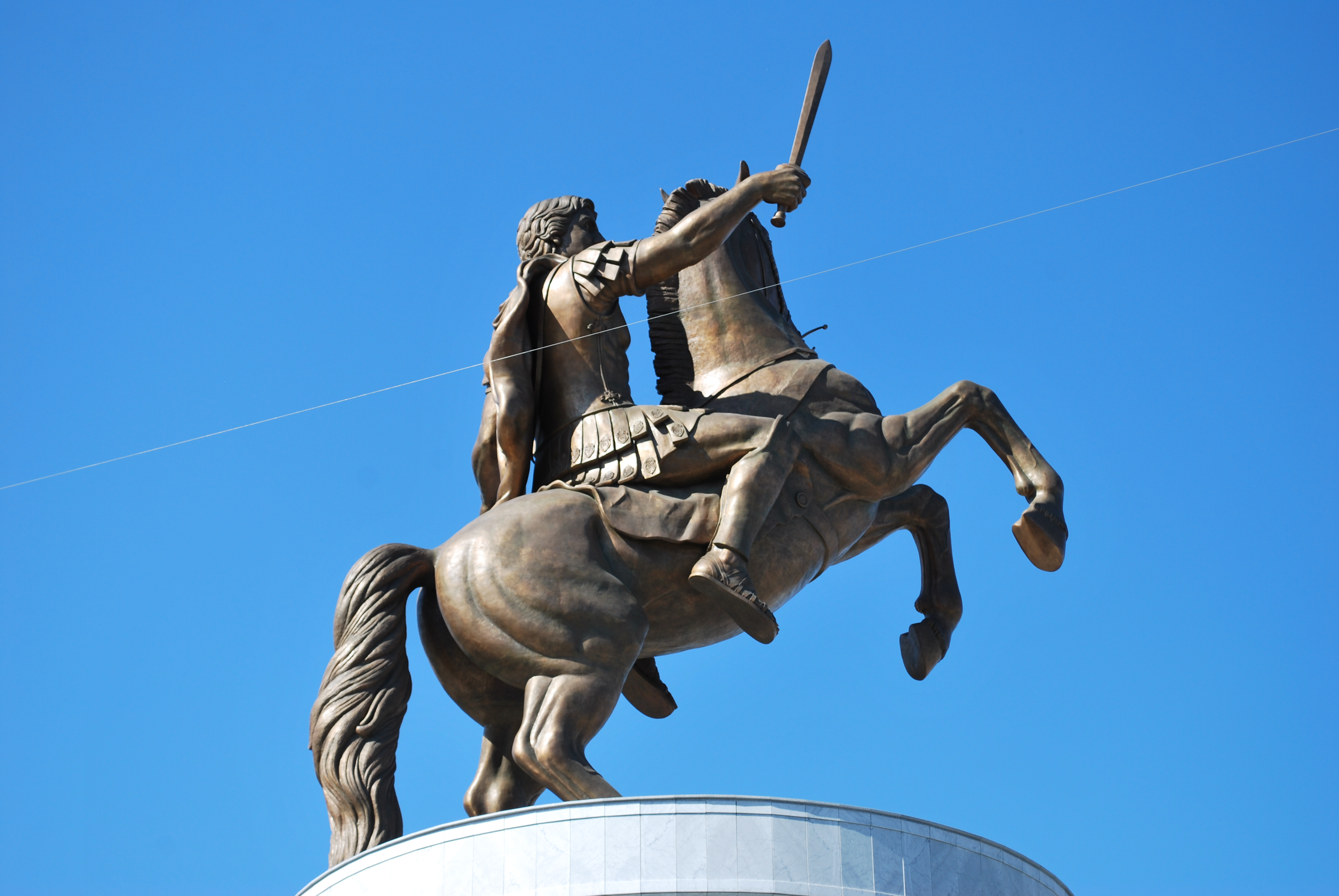 Warrior on Horseback in Macedonia Square in Skopje, Macedonia